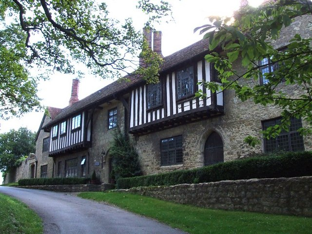 The Old House, Headland Lane, Whitchurch, Buckinghamshire. The house was built in the 15th century, altered in the 17th century and again in the 1930s and 40s